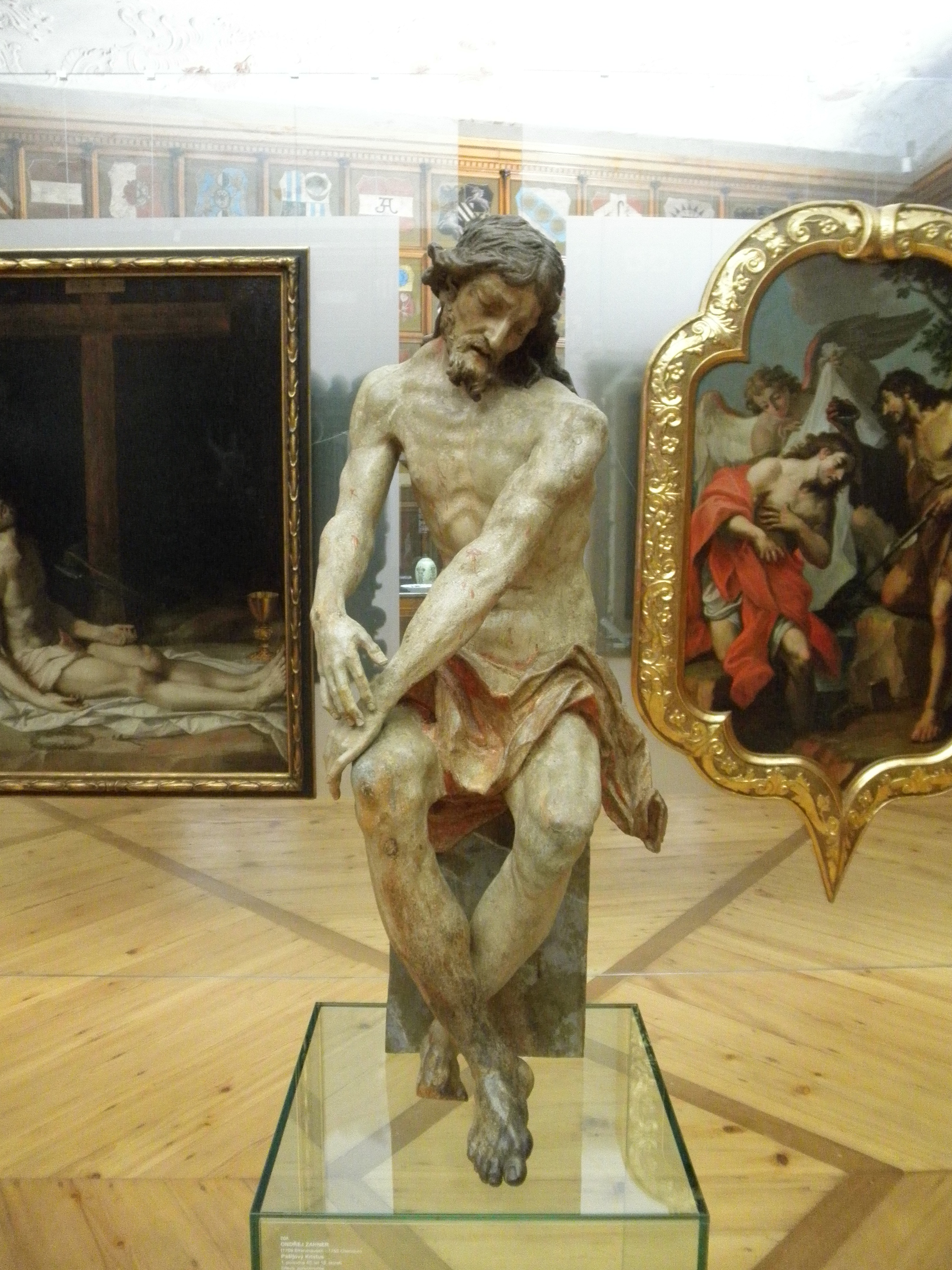 The Passion of Christ in the Archbishopric Museum in Olomouc. The statue was made by Andreas Zahner in the first half of the 1740s.